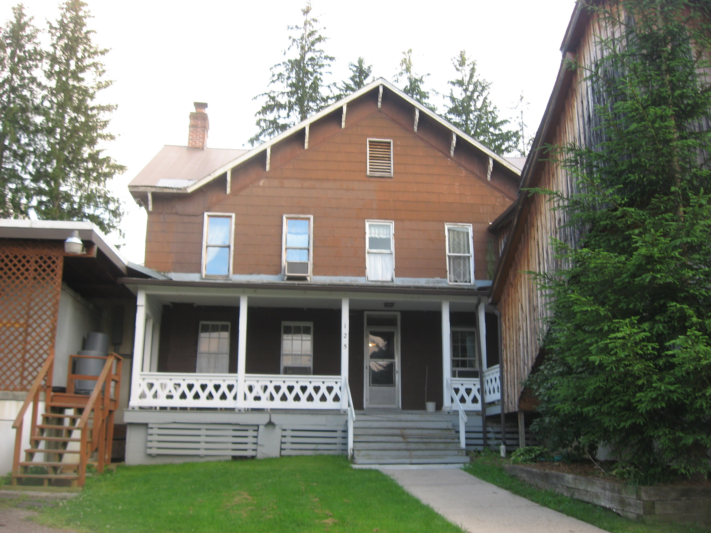 Front of Penn Alps, an old inn on the original route of the National Road just east of Grantsville in Garrett County, Maryland, United States. Built in the early 19th century and later remodelled to its current semi-Italianate appearance, it remains a restaurant to the present day. It is one of several former taverns in far western Maryland included in the "Inns on the National Road" grouping, which is listed on the National Register of Historic Places as a historic district.